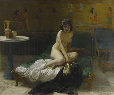 Potiphar's wife